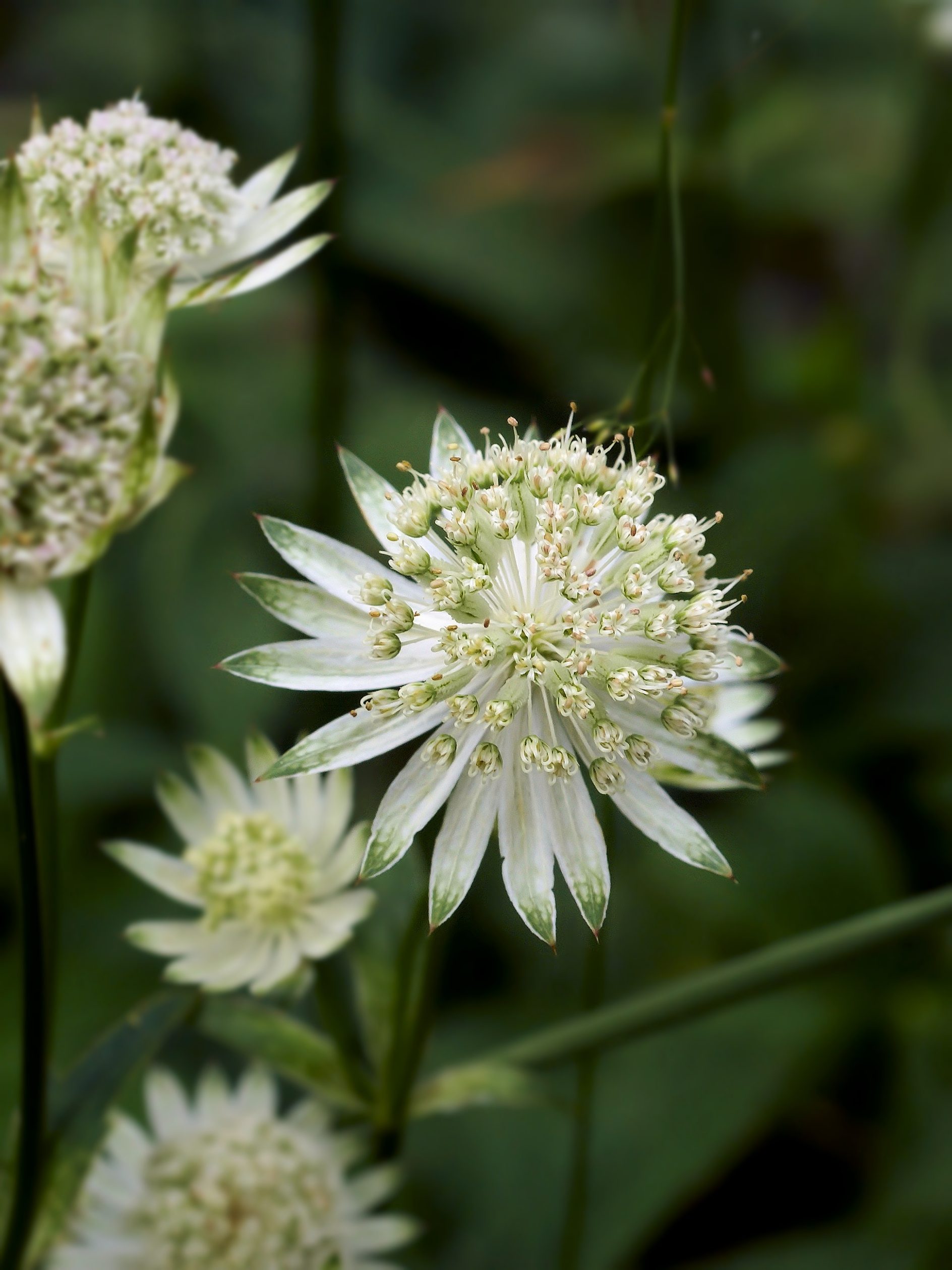 Great Masterwort near El Serrat in Andorra.